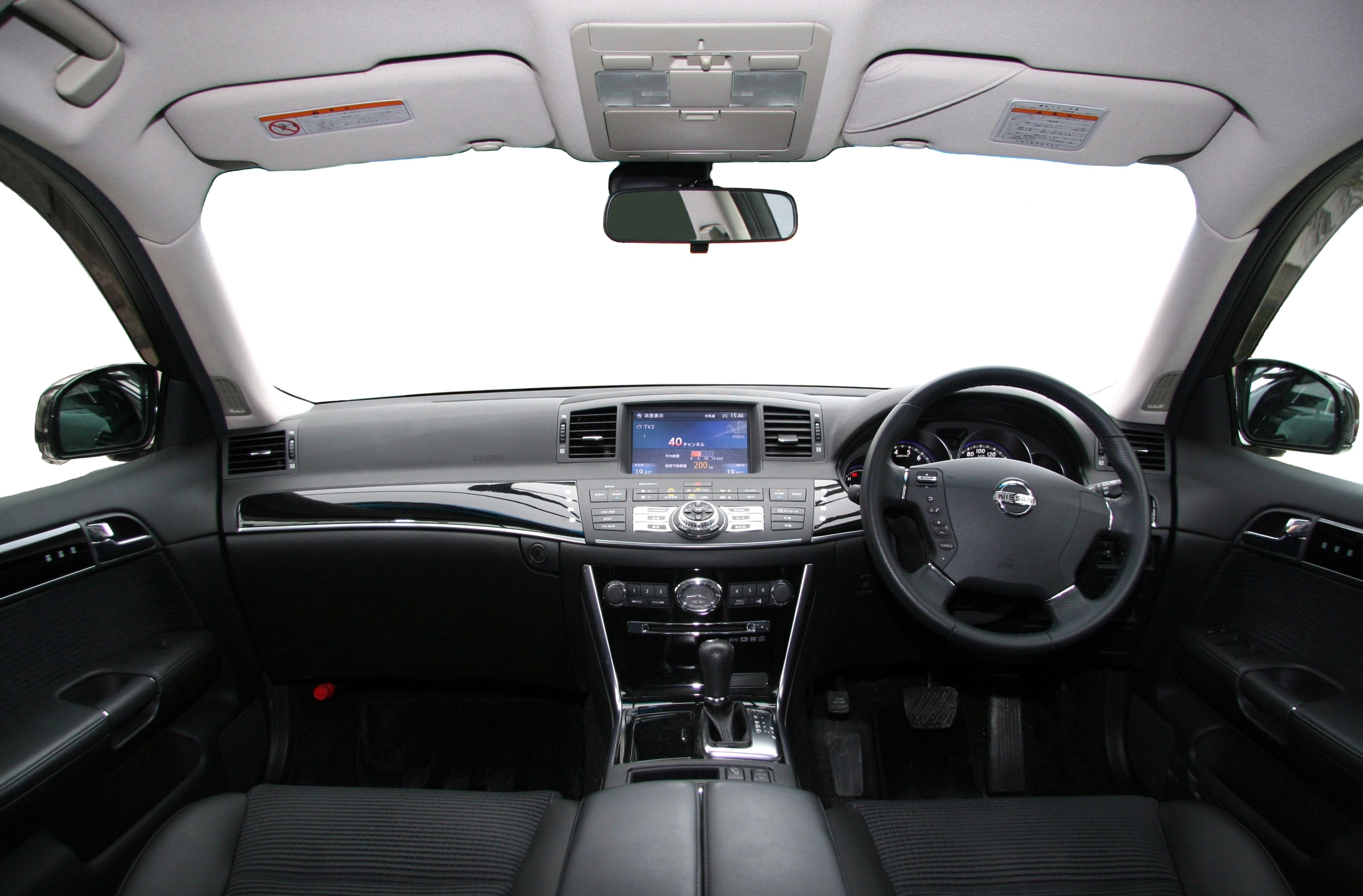 NISSAN FUGA2007-12-20 - 2009-11-19, 350GT FOURSports Elegance Interior (Black+Piano Finisher) with mogol jacquard and Neo Sofeel seatsWith optional black floor carpet